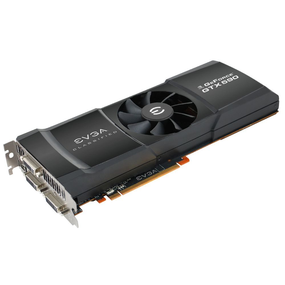 "Simply one of the fastest, best graphics cards you can buy." -- Jon Peddie, Jon Peddie Research Intel Free Press story: Holiday Gift Guide: Tech Experts' Top Picks. EVGA